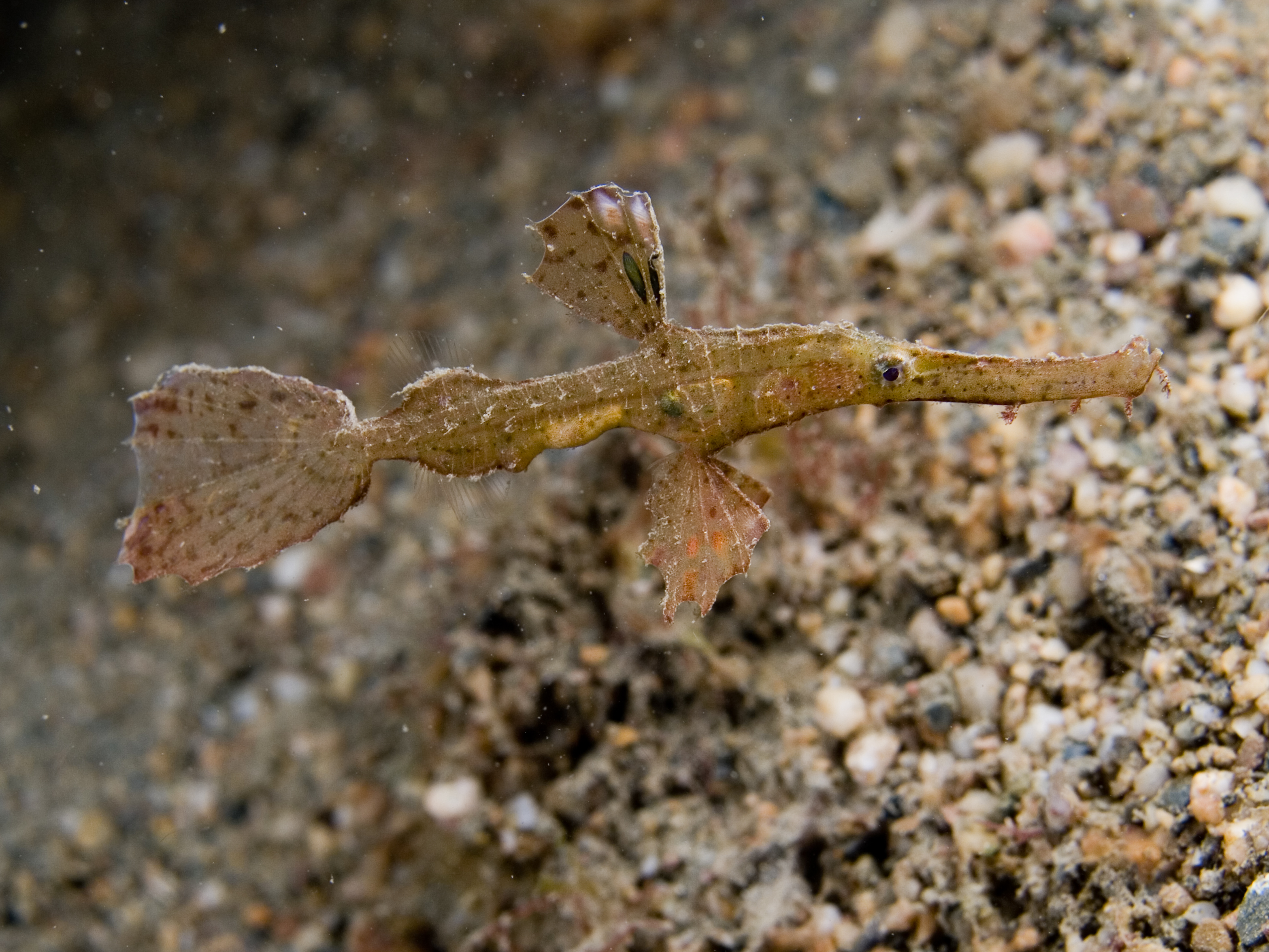 Delicate ghost pipefish juvenile Solenostomus leptosomus